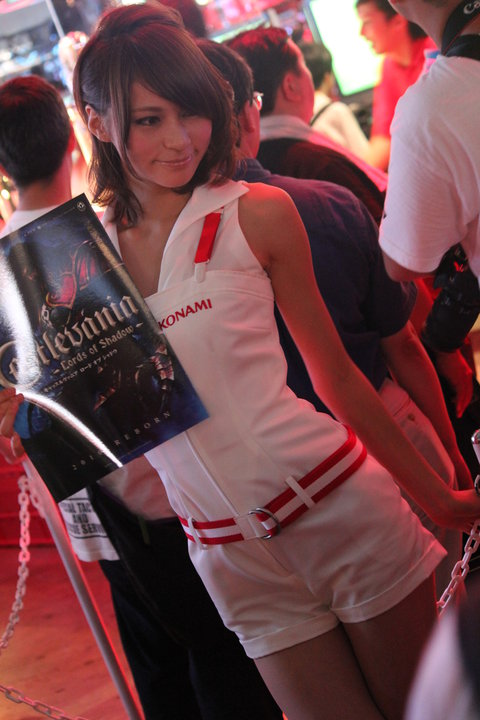 Meiko Watanabe, promotional model of Castlevania: Lords of Shadow by Konami at Tokyo Game Show 2010.